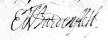 Signature of Engelbert Johann von Bardenfleth, on a letter 1723